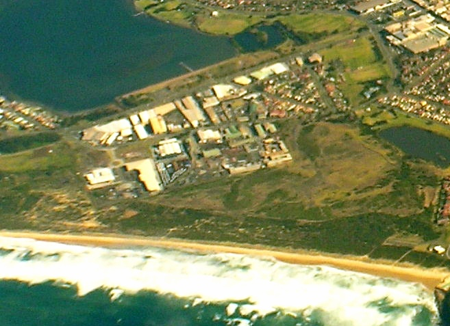 Aerial photo of Kemblawarra from the east, near Wollongong